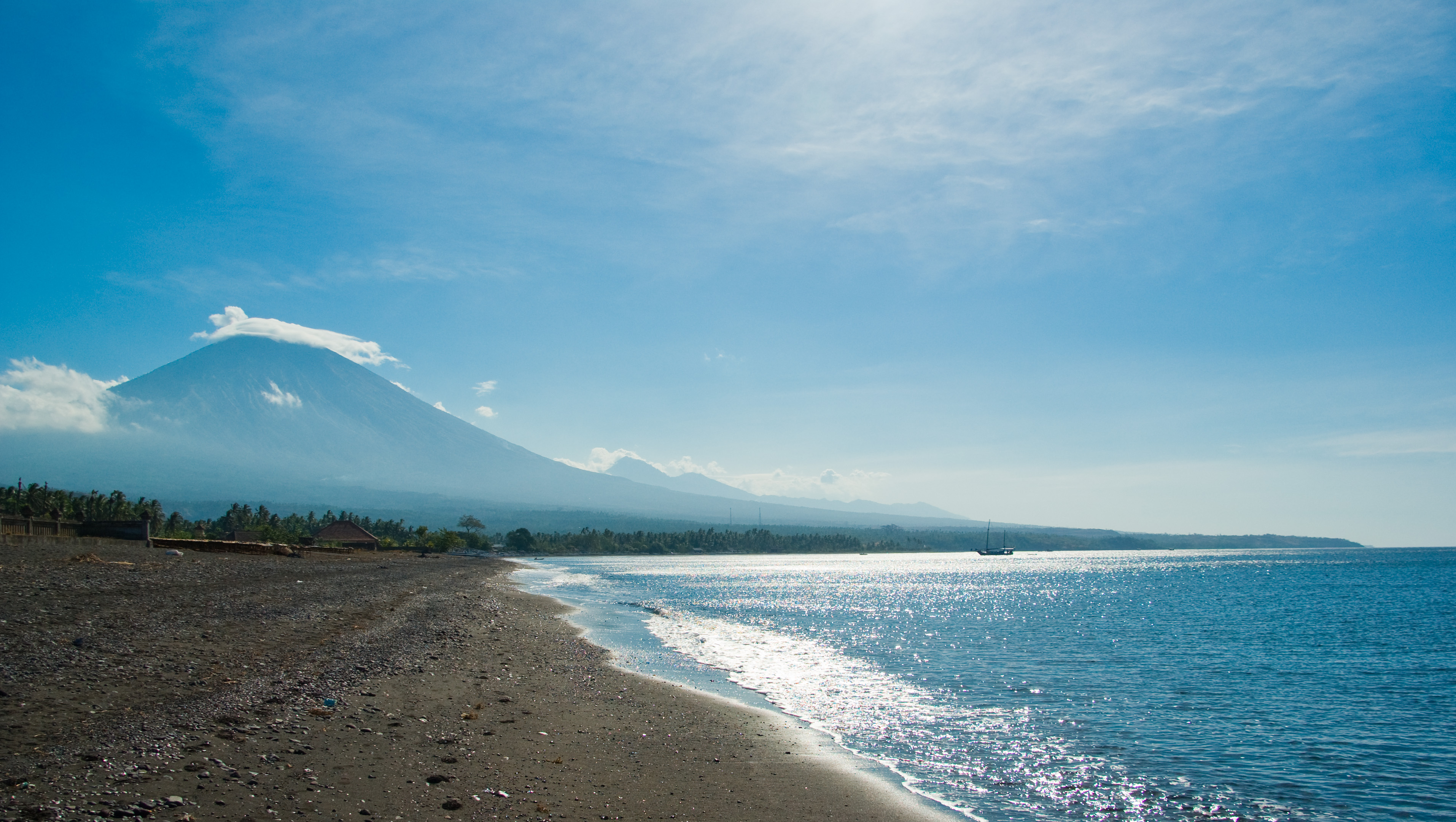 Mount Agung seen from Amed beach